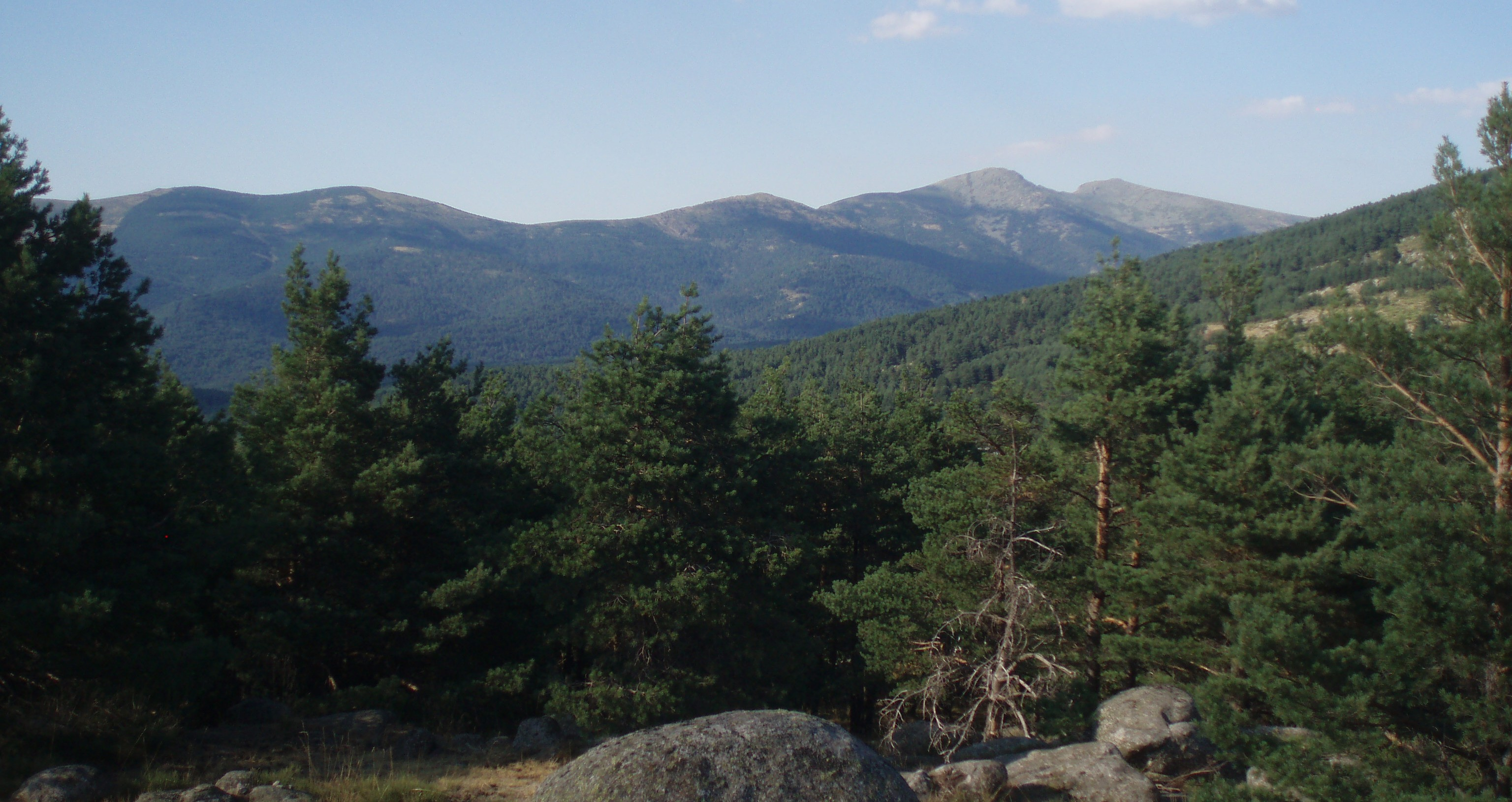 Río Moros valley (Sierra de Guadarrama, central Spain).